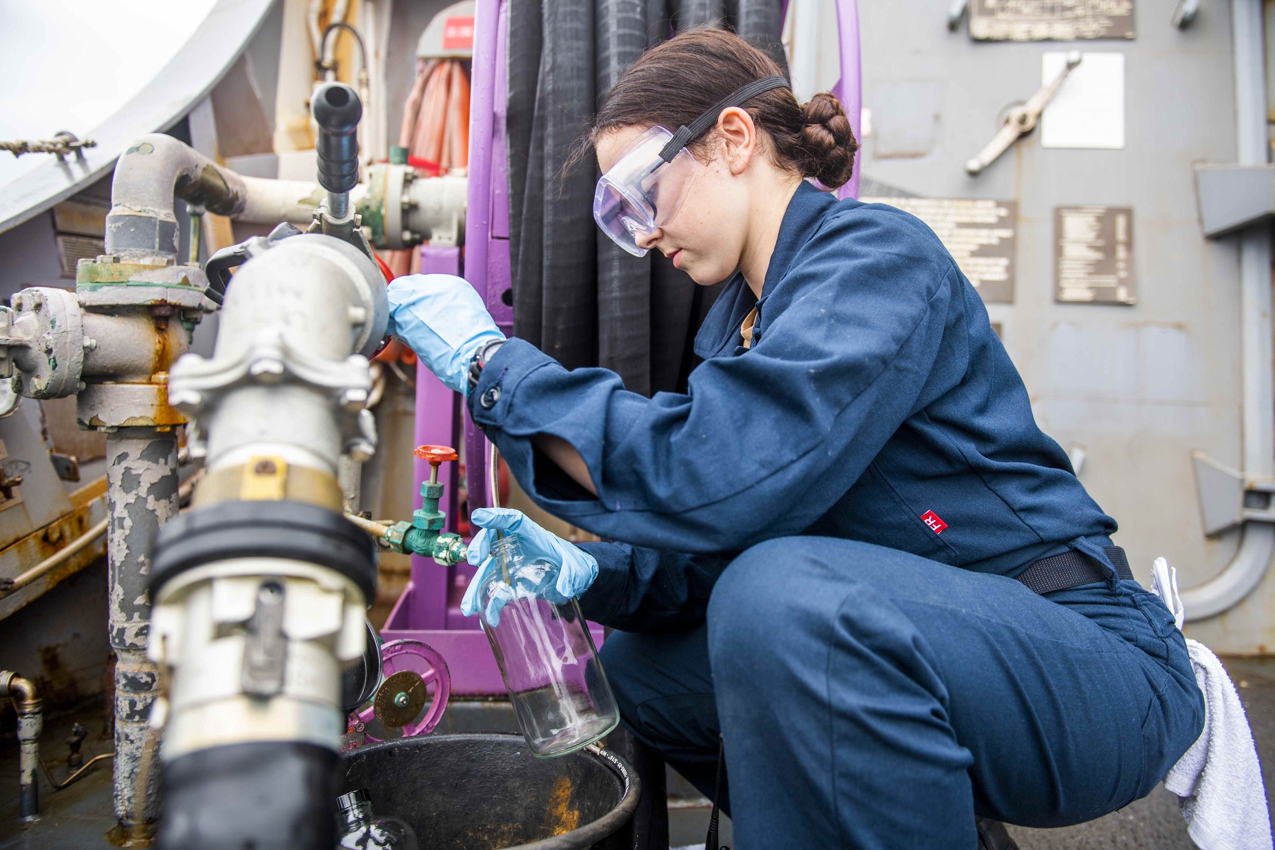 191007-N-CL550-0202 EAST CHINA SEA (Oct. 7, 2019) Gas Turbine System Technician (Mechanical) Fireman Mckenna Menedis, from Baltimore, takes fuel samples for testing from a fuel valve on the flight deck aboard the Arleigh Burke-class guided-missile destroyer USS Milius (DDG 69). Milius is underway conducting operations in the Indo-Pacific region while assigned to Destroyer Squadron (DESRON) 15, the Navy’s largest forward-deployed DESRON and the U.S. 7th Fleet’s principal surface force. (U.S. Navy photo by Mass Communication Specialist 2nd Class Taylor DiMartino)